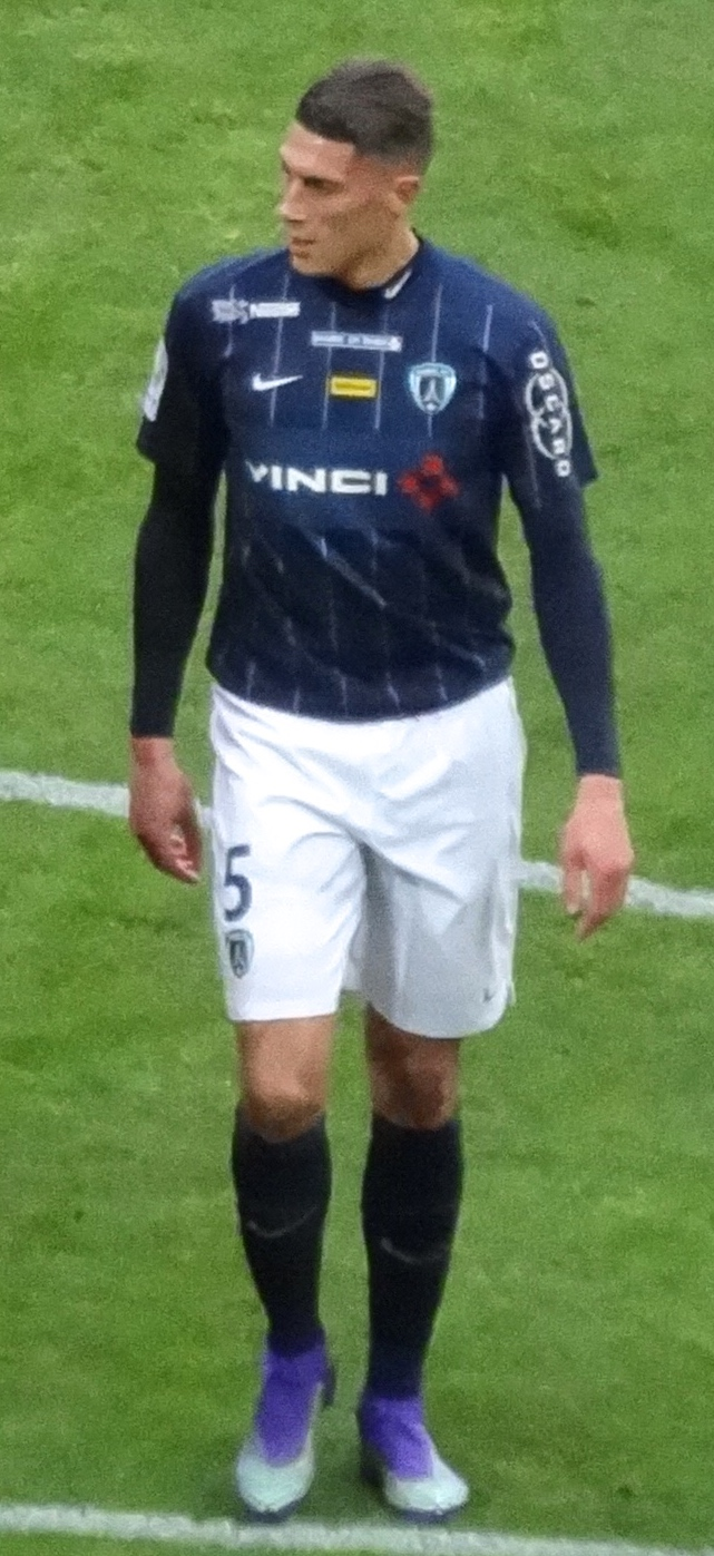 Mehdi Tahrat Paris FC